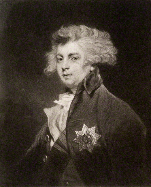 George IV of the United Kingdom (1762-1830, r. 1820-1830)